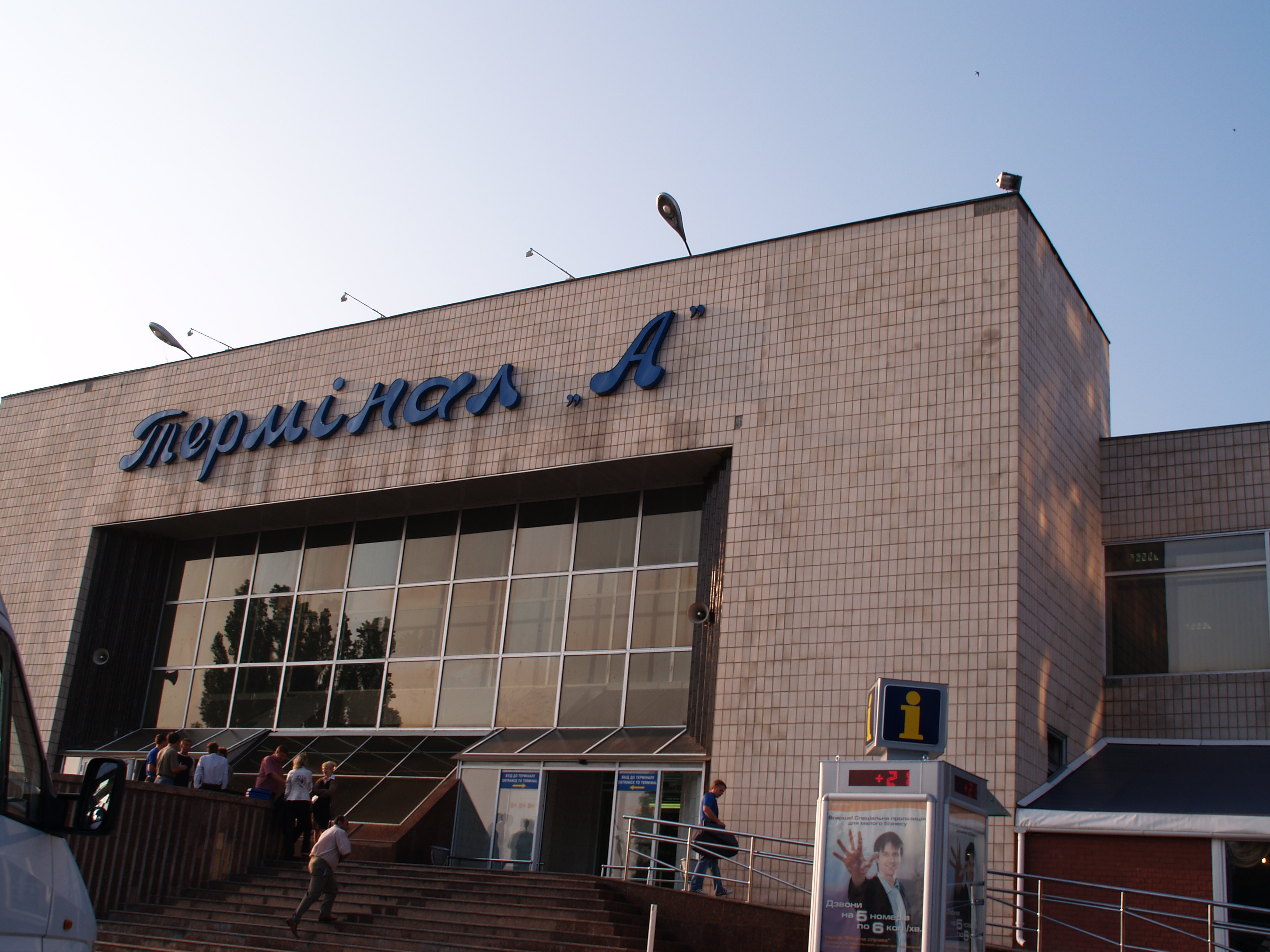 Terminal A of the Boryspil International Airport